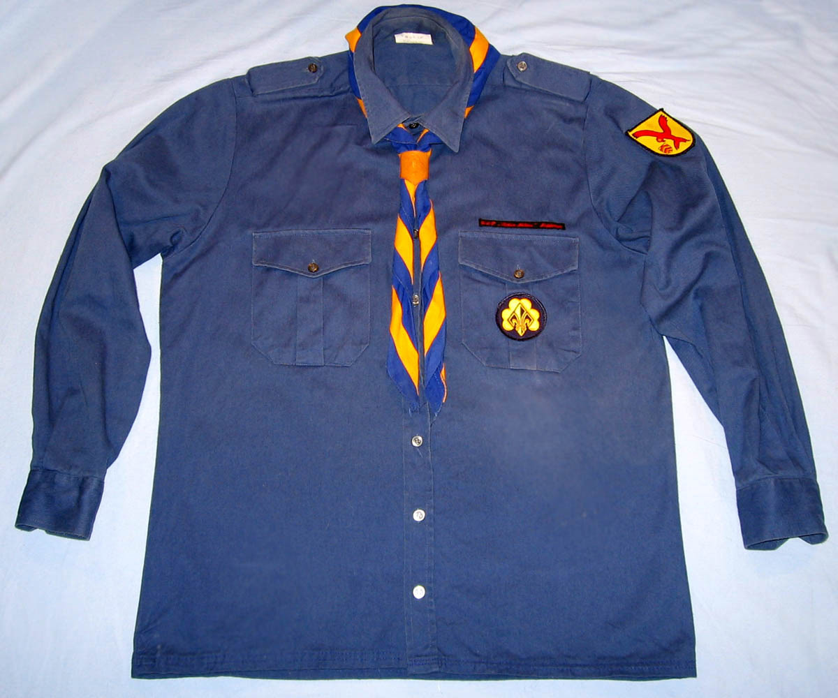 A Scout uniform of a Scout of the German "Bund der Pfadfinderinnen und Pfadfinder". On the left front pocket there is the symbol of the BdP and above the name of the local unit ("Stamm"). On the right sleeve there is the insignia of the local unit.